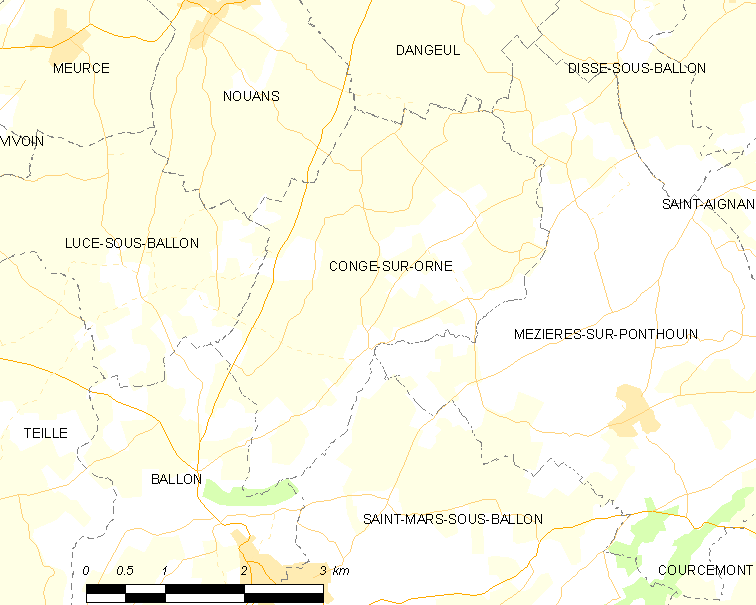 Map of French municipality